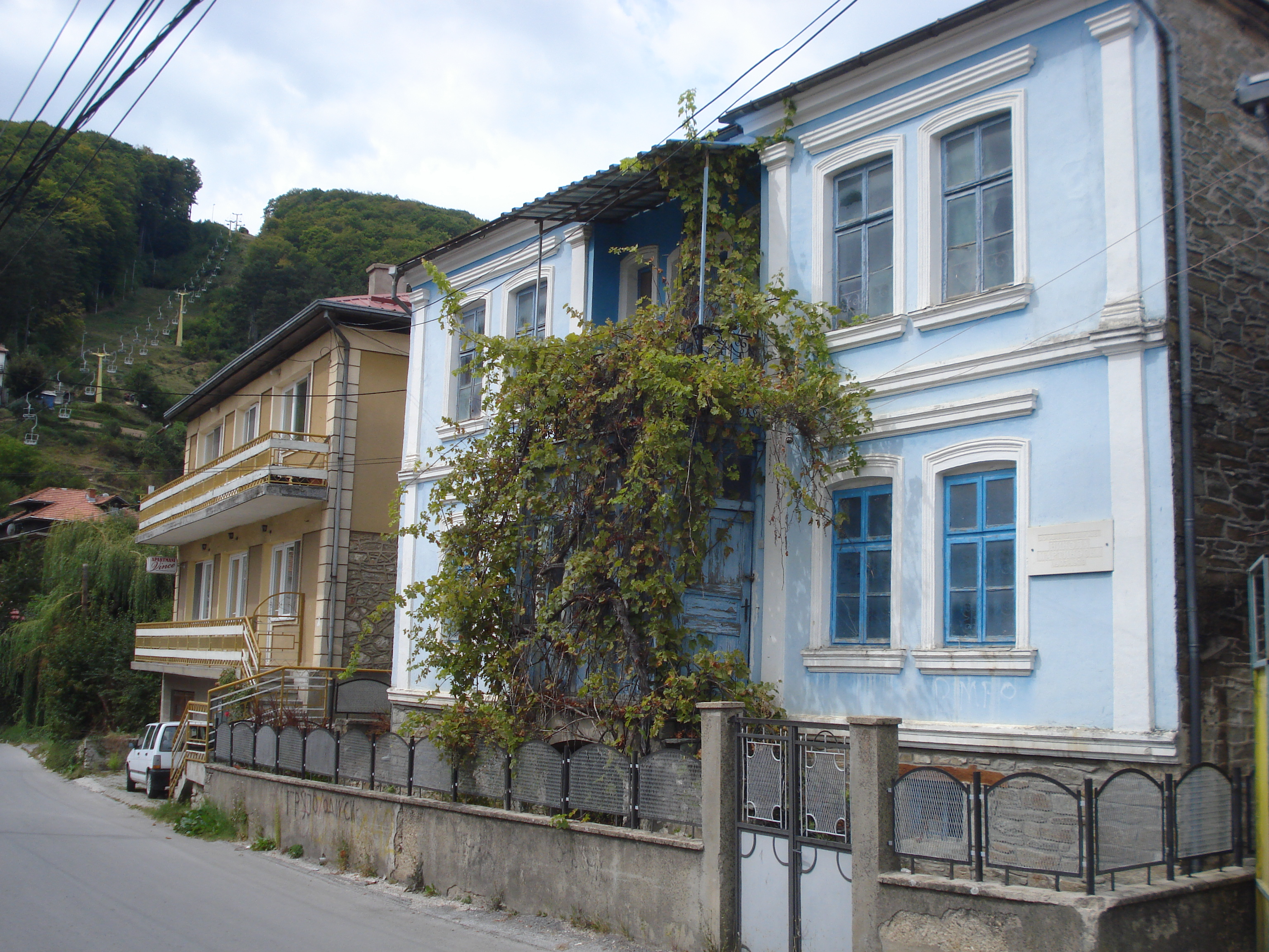 Birth house of Nikola Martinoski in Krusevo